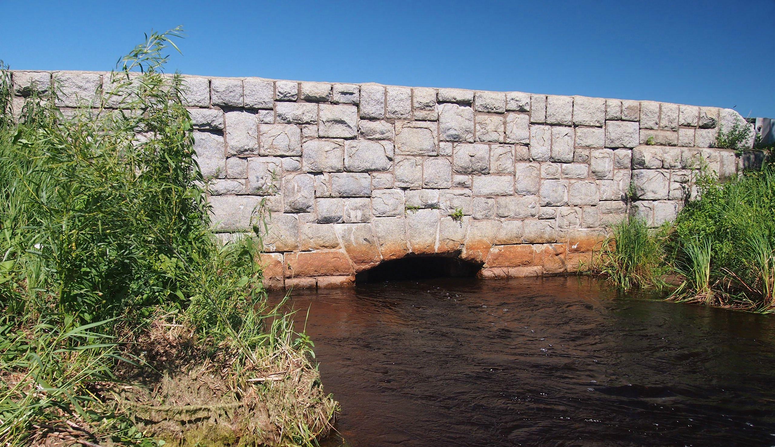 St. Alban's Bay Culvert at Mille Lacs Lake, U.S. Route 169, Garrison Township, Minnesota, USA. Viewed from the southeast.